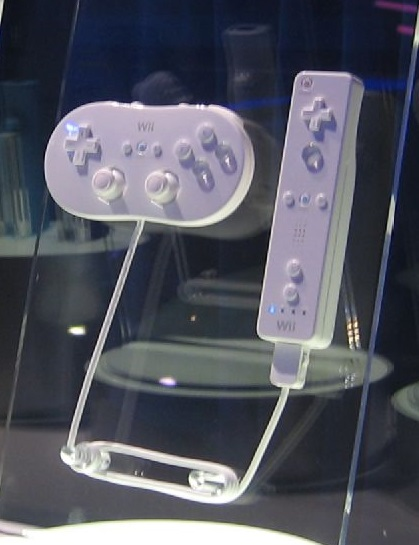 Wii Classic Controller and Wii Remote as it was shown at E3 2006.